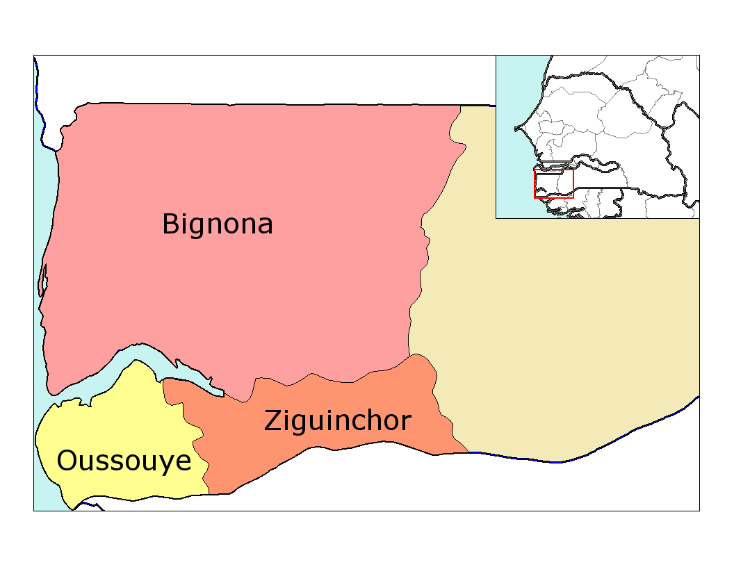 Map of the departments of Ziguinchor region in Senegal. Created by Rarelibra 22:32, 28 December 2006 (UTC) for public domain use, using MapInfo Professional v8.5 and various mapping resources.